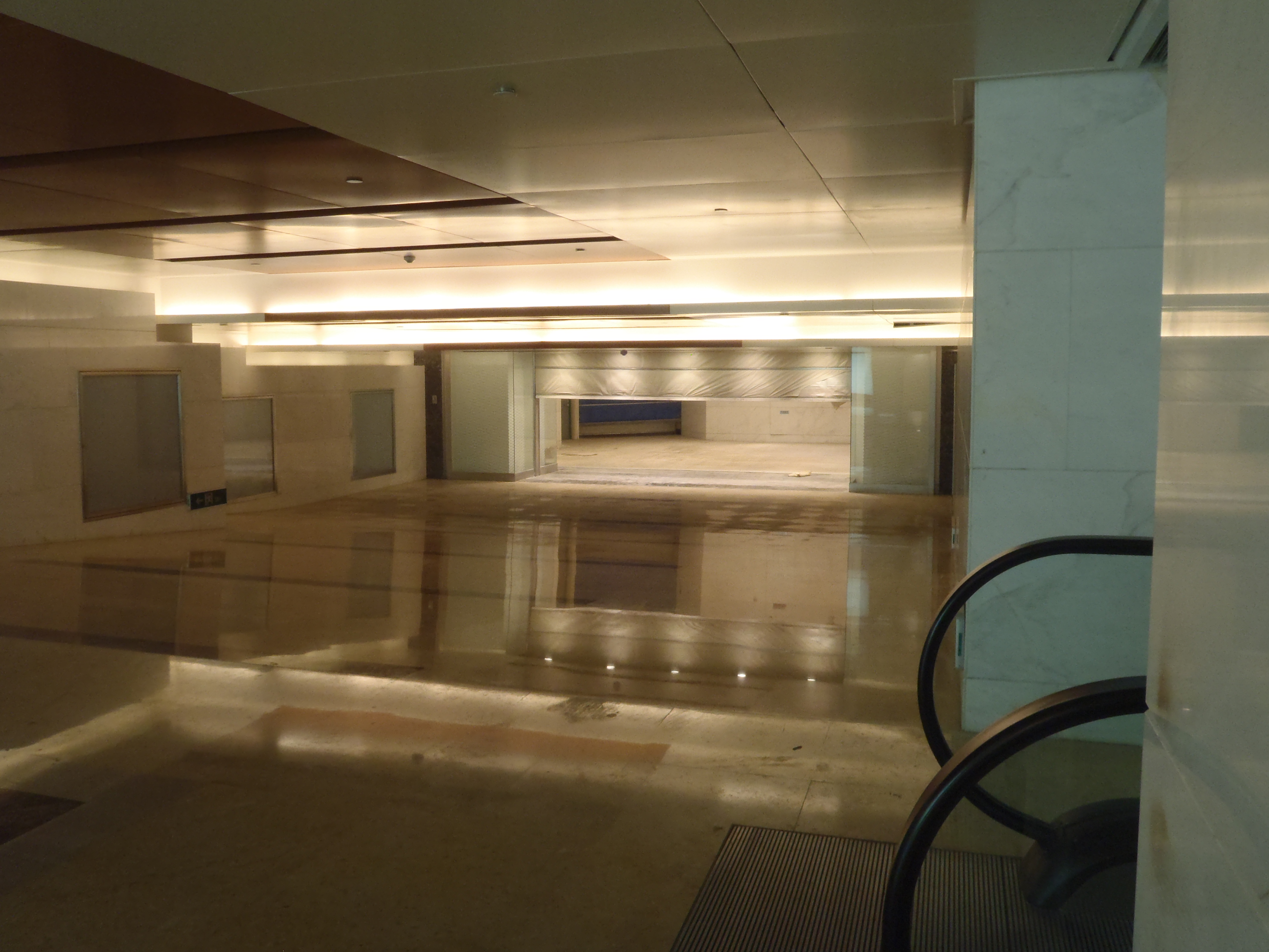 After coming down from Jiuguang Department Store, this is what you would see.